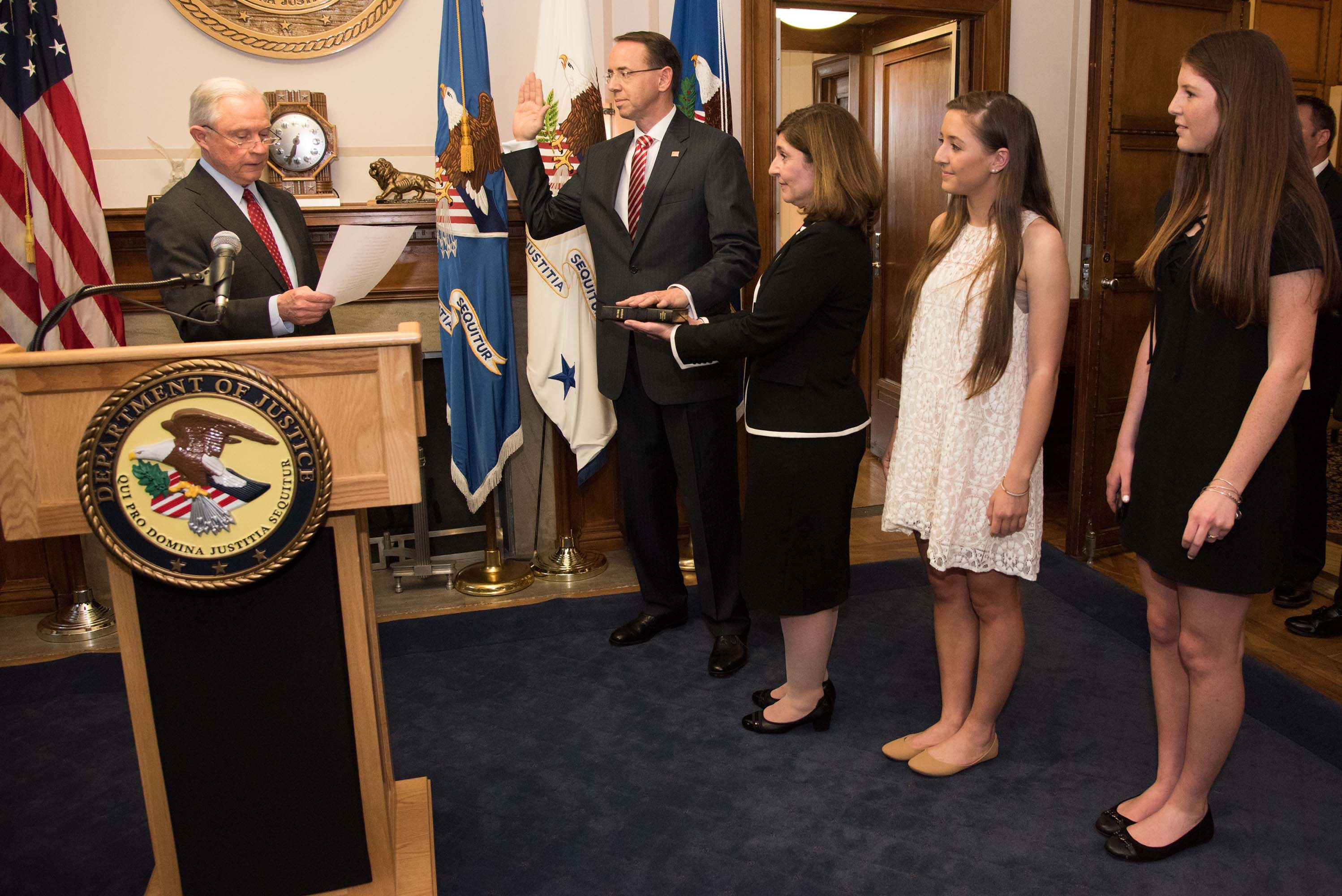 Attorney General Jeff Sessions administers the oath of office to Rod J. Rosenstein to be the Deputy Attorney General of the United States.